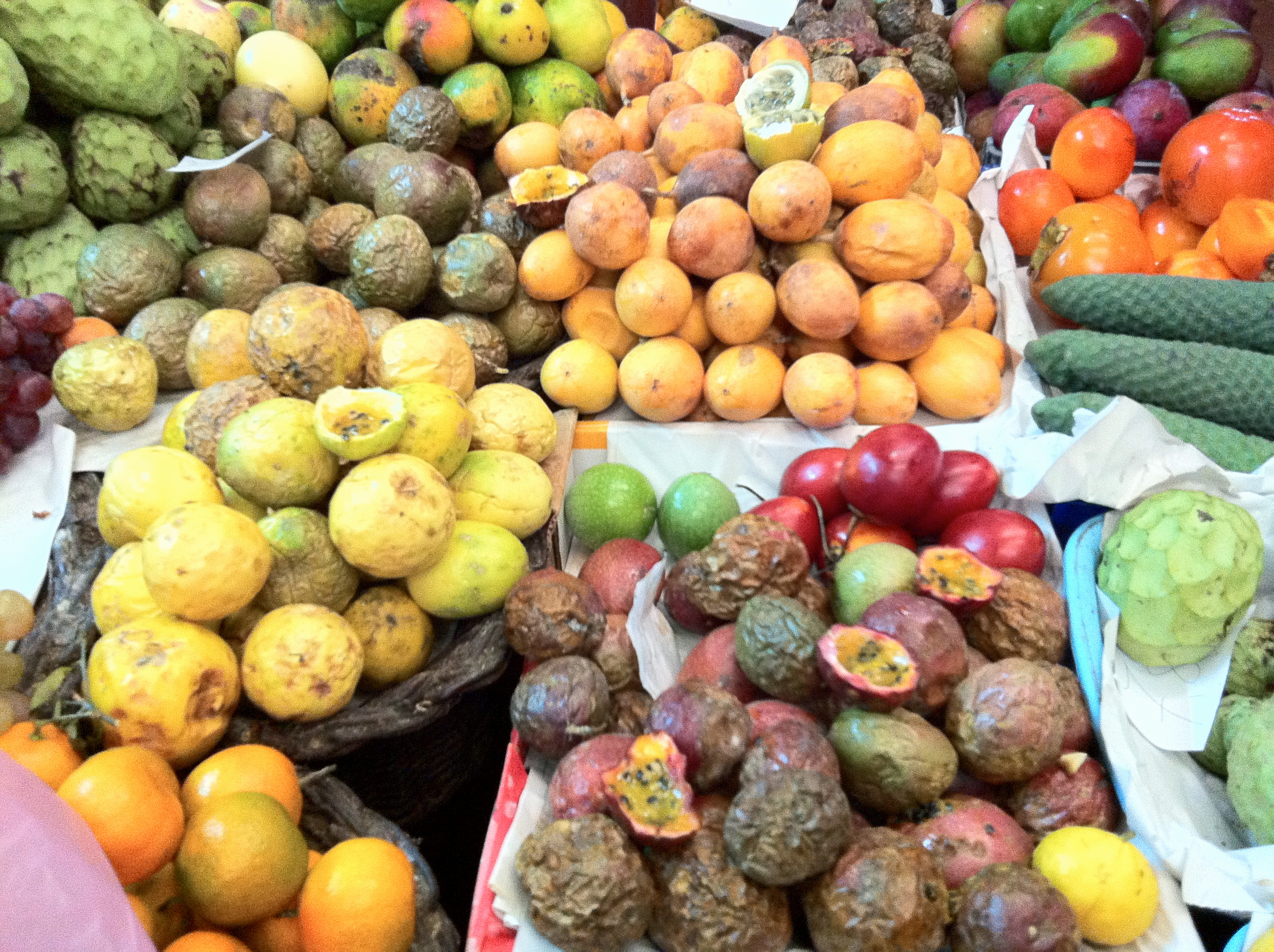 Many varieties of passion fruit! I bought two or three of each.